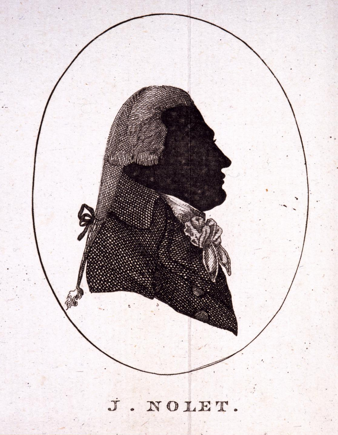 Jacob Nolet (also: Jacobus Nolet)(1740-1806)